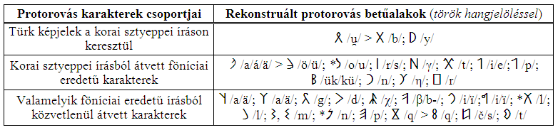 Reconstructed Proto-Rovas characters.